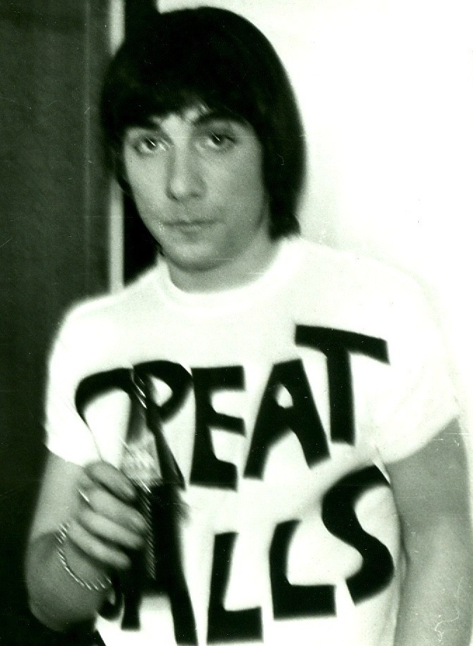 1967 - The Who - Roger Daltrey (side) with Keith Moon. The boys backstage before their gig in Ludwigshafen, Germany.